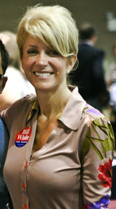 Texas State Senator Wendy Davis.